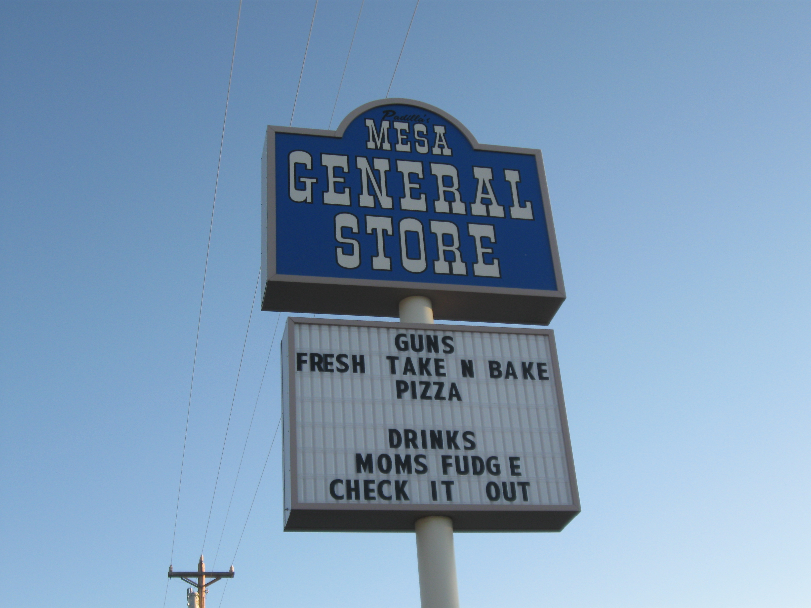 This is the sign outside Mesa General Store in Mesa, Colorado.